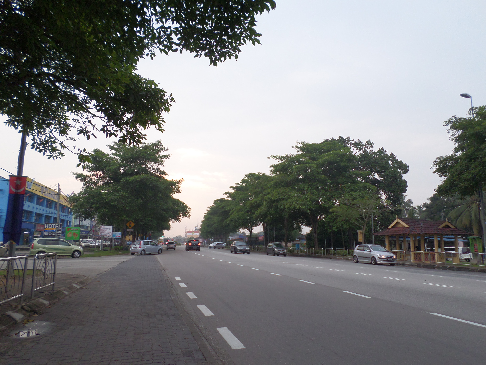 Parit Raja, Batu Pahat, Johor, MalaysiaBahasa Melayu: Parit Raja, Batu Pahat, Johor, Malaysia